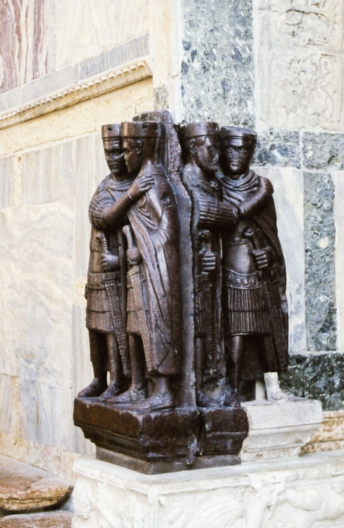 The tetrarchs (from the Greek words for "Four rules") were the four co-rulers that governed the Roman Empire as long as Diocletian's reform lasted. Here they were portrayed embracing, in sign of harmony, in a porphyry sculpture dating from the 4th century, produced in Asia Minor, today on a corner of Saint Mark's in Venice, next to the "Porta della Carta".